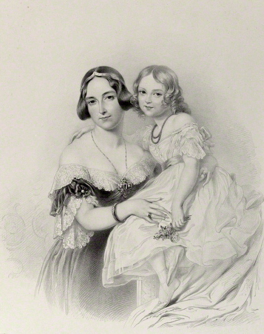 Princess Adelheid of Hohenlohe-Langenburg, Duchess of Schleswig-Holstein-Sonderburg-Augustenburg (1835-1900), Wife of Frederick VIII, Duke of Schleswig-Holstein-Sonderburg-Augustenburg; Niece of Queen Victoria